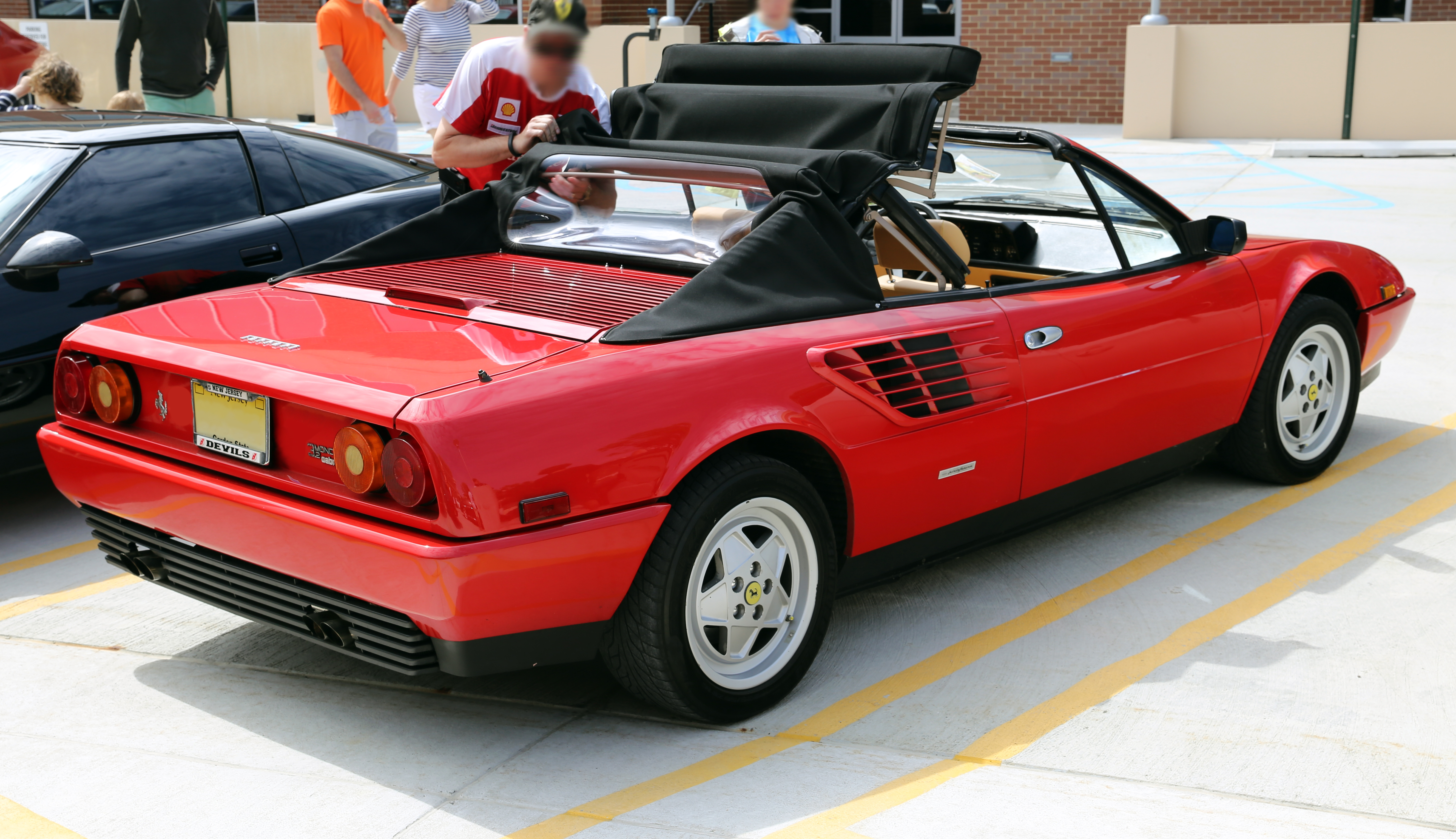 US market Ferrari Mondial 3.2 Cabriolet.